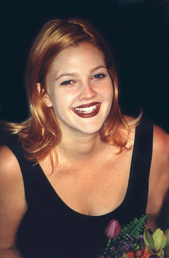 Senator Theater Baltimore M.D. 1997